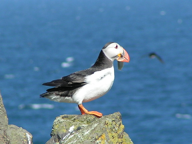 Puffin feeding.